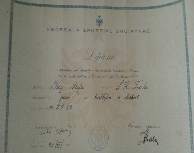 Hedhje disku